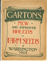 Cover of Gartons seed catalogue for Spring 1902